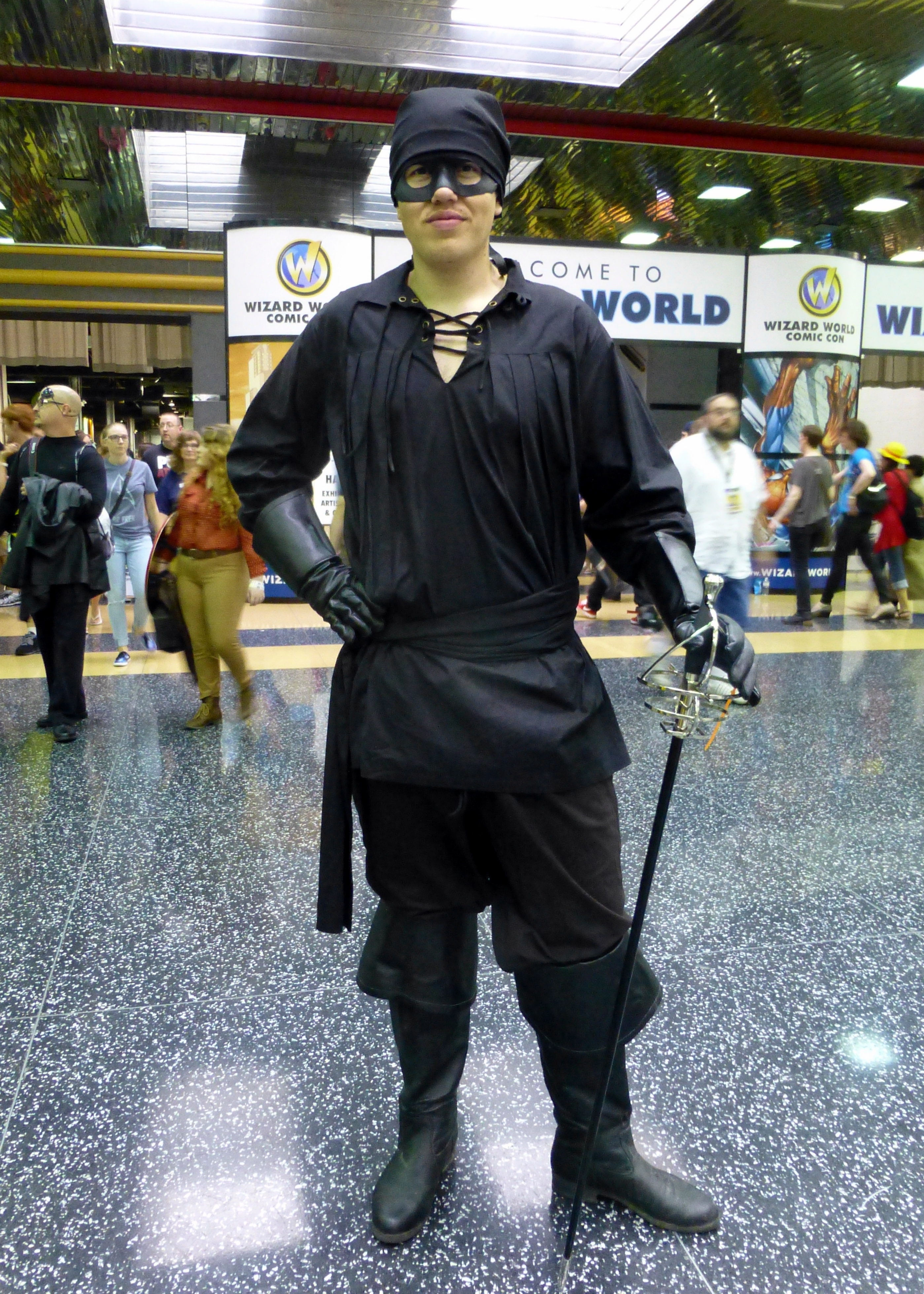 Cosplay at the 2014 Wizard World Chicago.